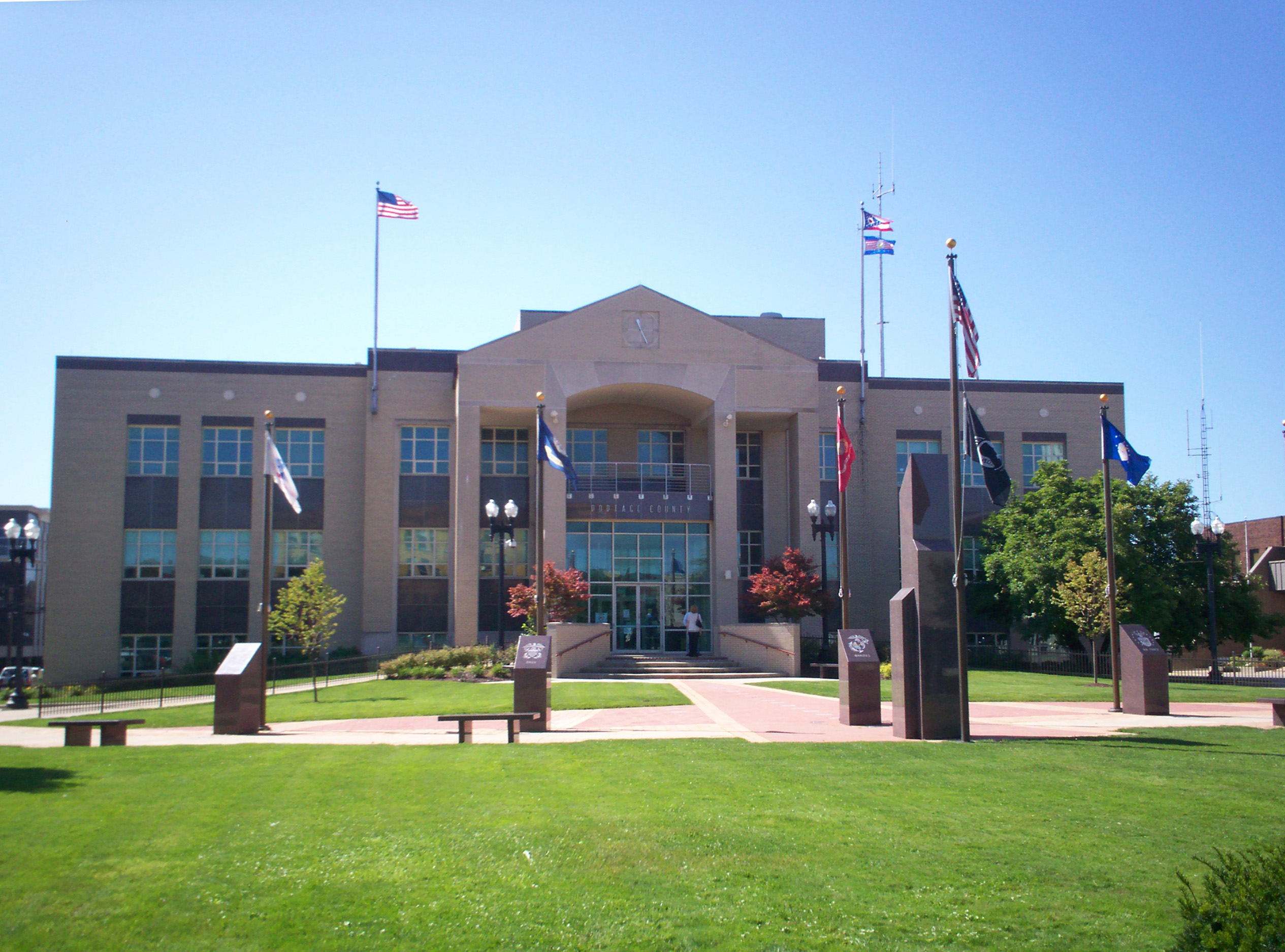 The Portage County courthouse in downtown Ravenna, Ohio.